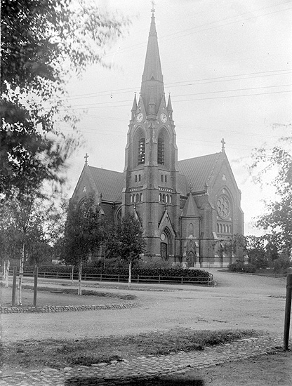 Umeå City Church 1902. Photo acquired from Bernt Karlsson.